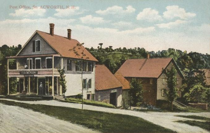 Post Office, South Acworth, New Hampshire; from a 1907 postcard published by J. W. Johnson, Newport, New Hampshire. Built in 1865 and still operating, the F. B. Emerson General Store & Post Office is today called the Acworth Village Store.